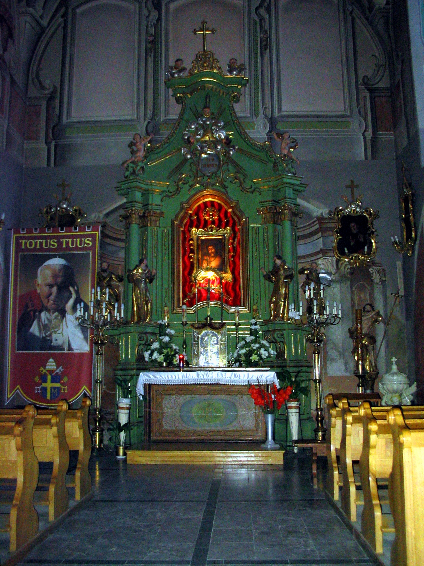 Franciscan Church in Przemyśl